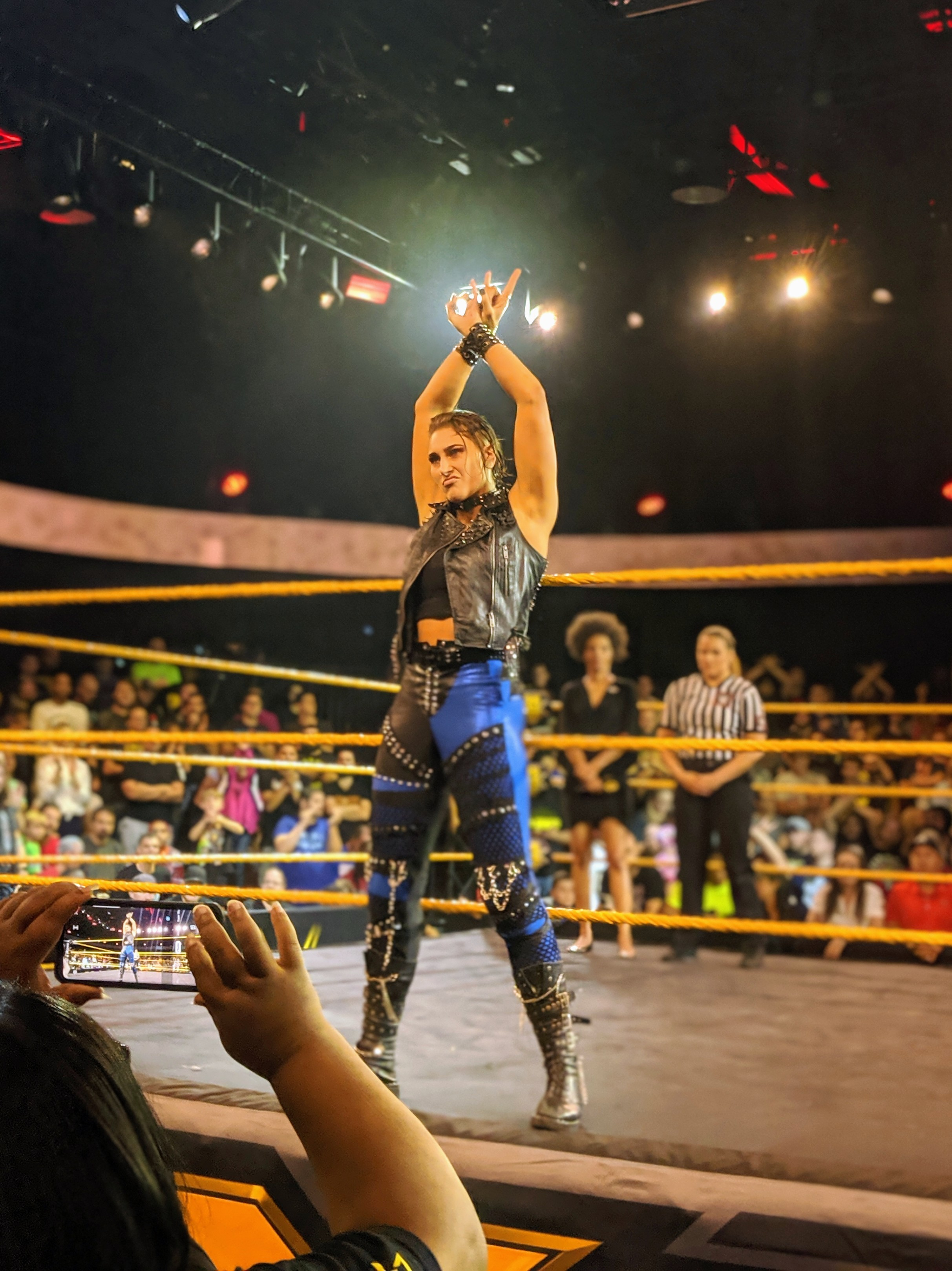 Photograph of Rhea Ripley posing before her match at NXT Fullsail 9/25/2019